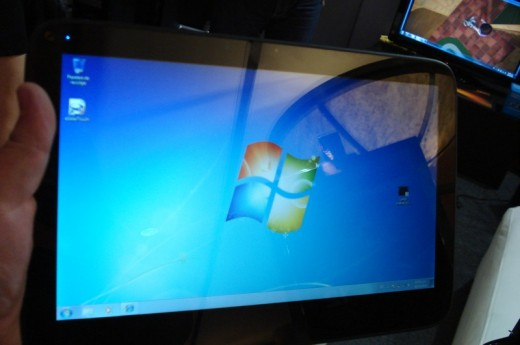 Picture of a Lanix W10 tablet computer, from Mexican electronics company Lanix.